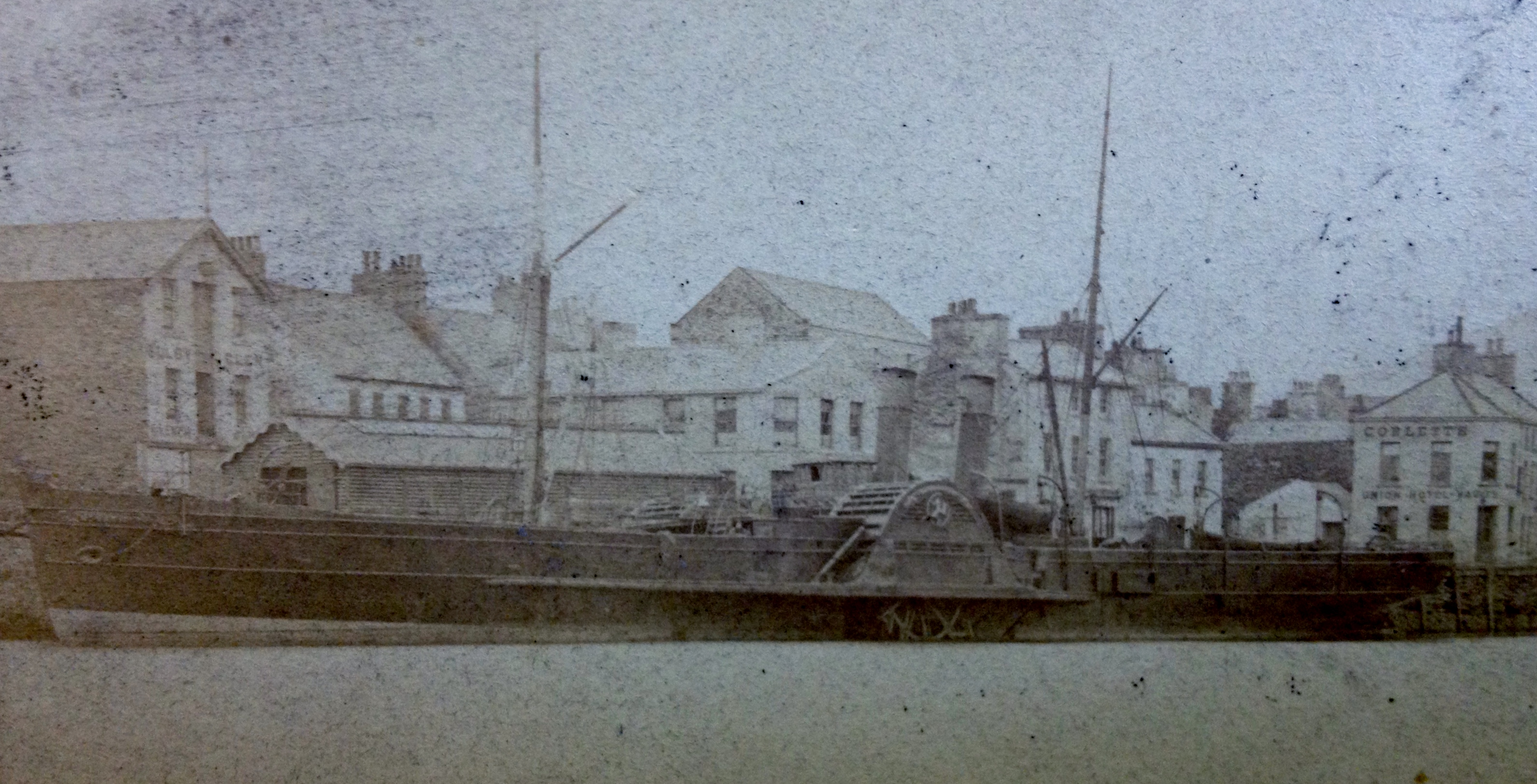 Mona's Isle pictured at Ramsey.